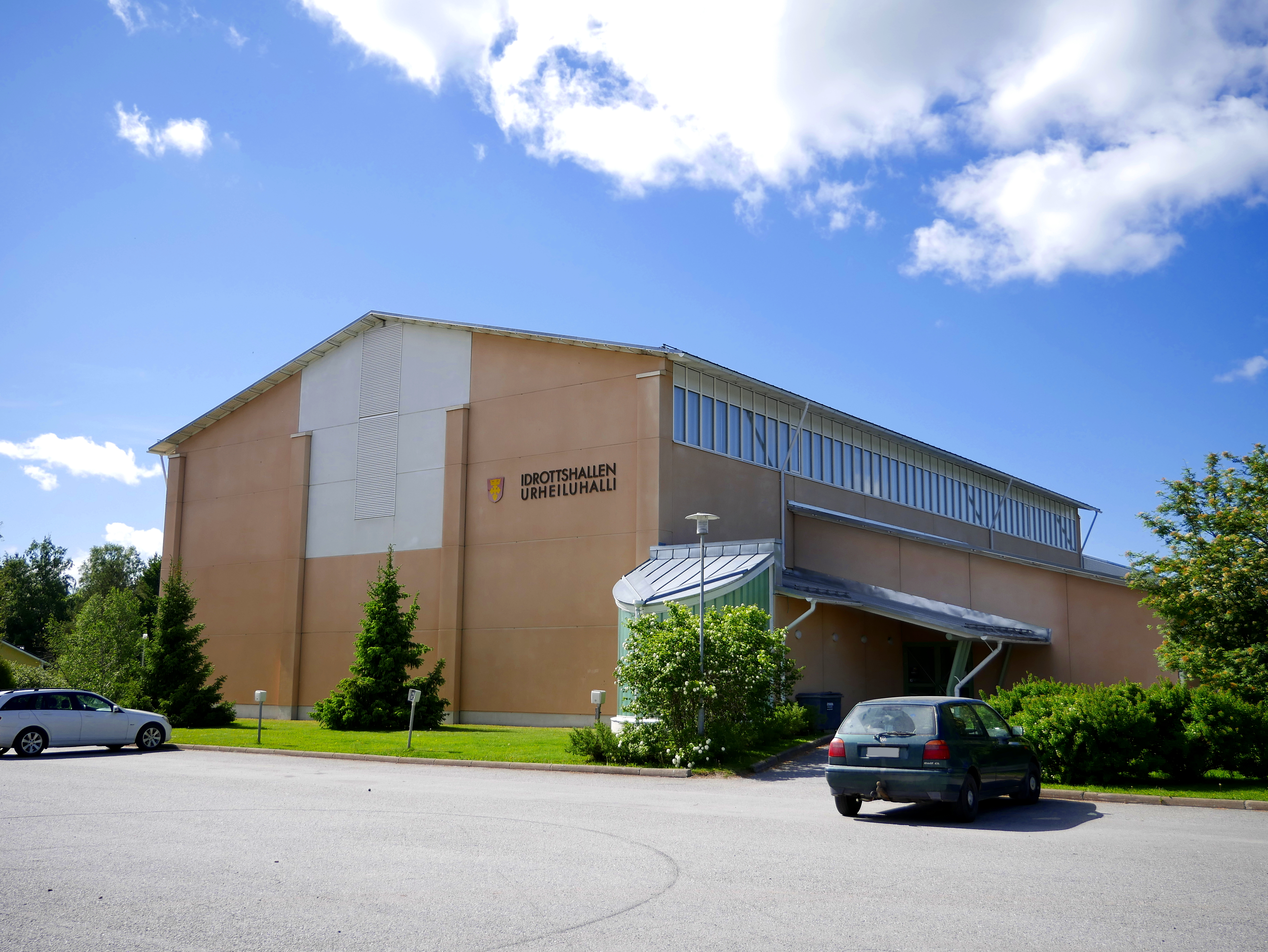 Kruunupyy sports hall, Finland.